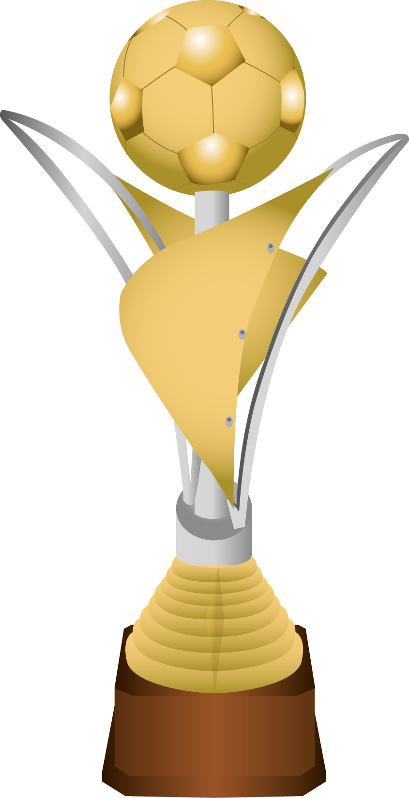 Costa Rican Primera Division Trophy Icon.